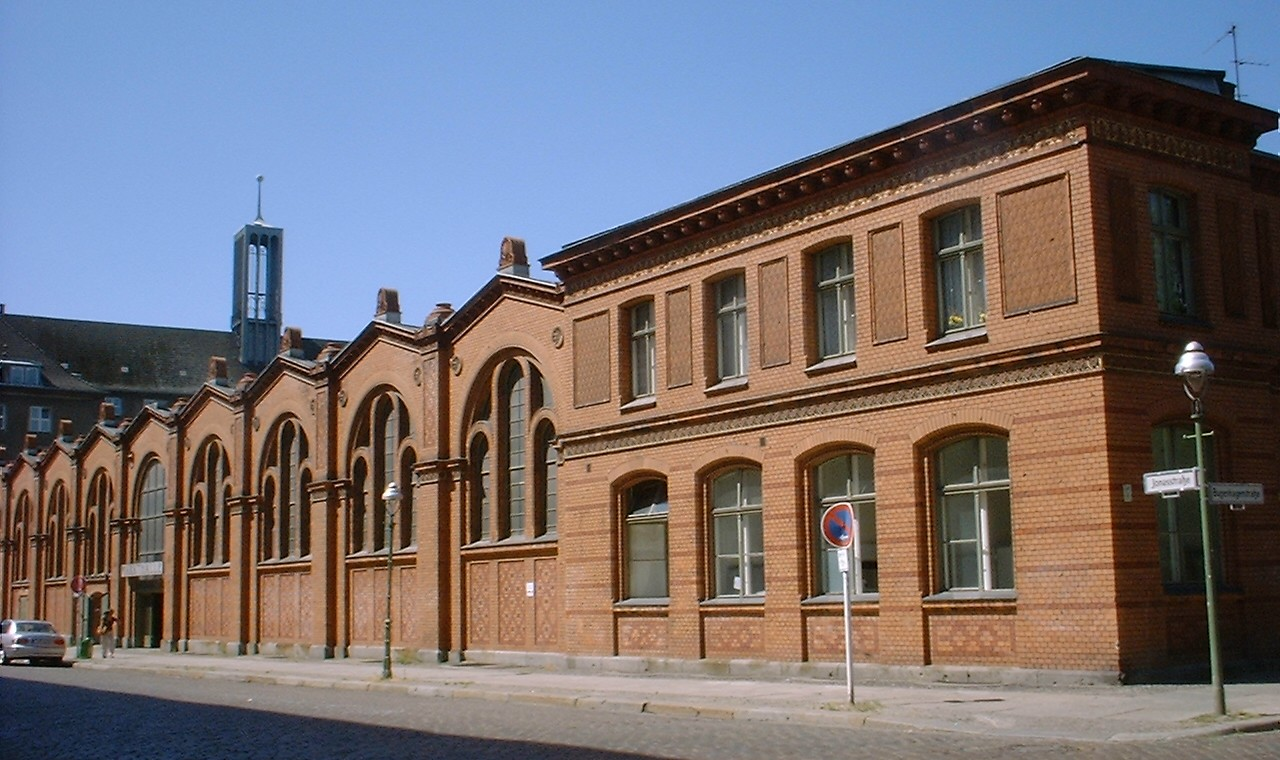 Market hall in Moabit in Berlin-Mitte, Germany